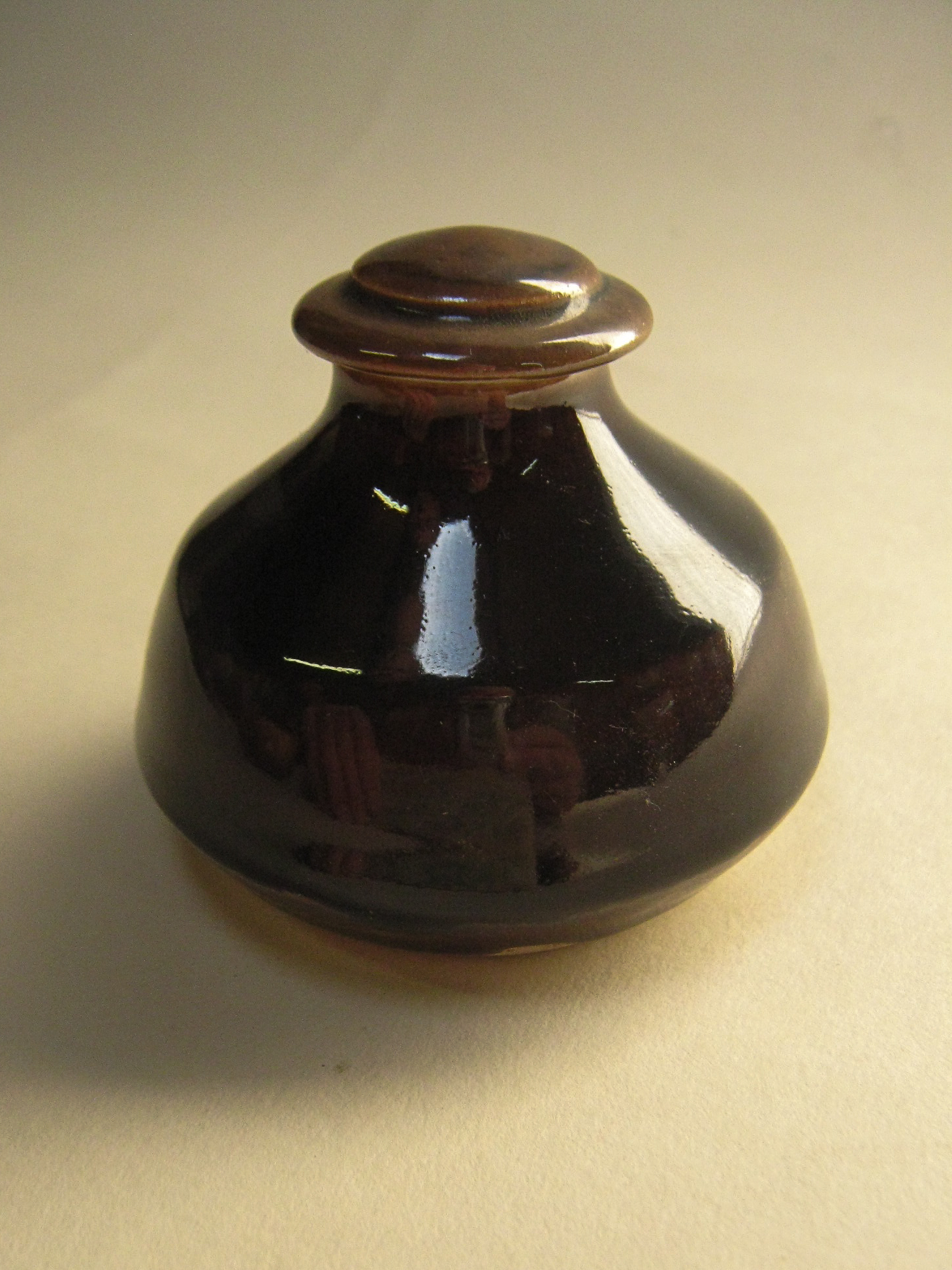 Small lidded pottery jar by Ian Sprague 1970s; photographed in a private collection at Enfield Victoria